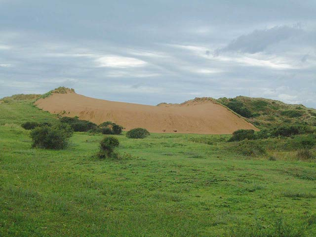 Mobile dune at Braunton Burrows